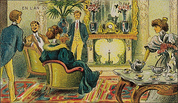 France in 2000 year (XXI century). Heating with radium. France, paper card.